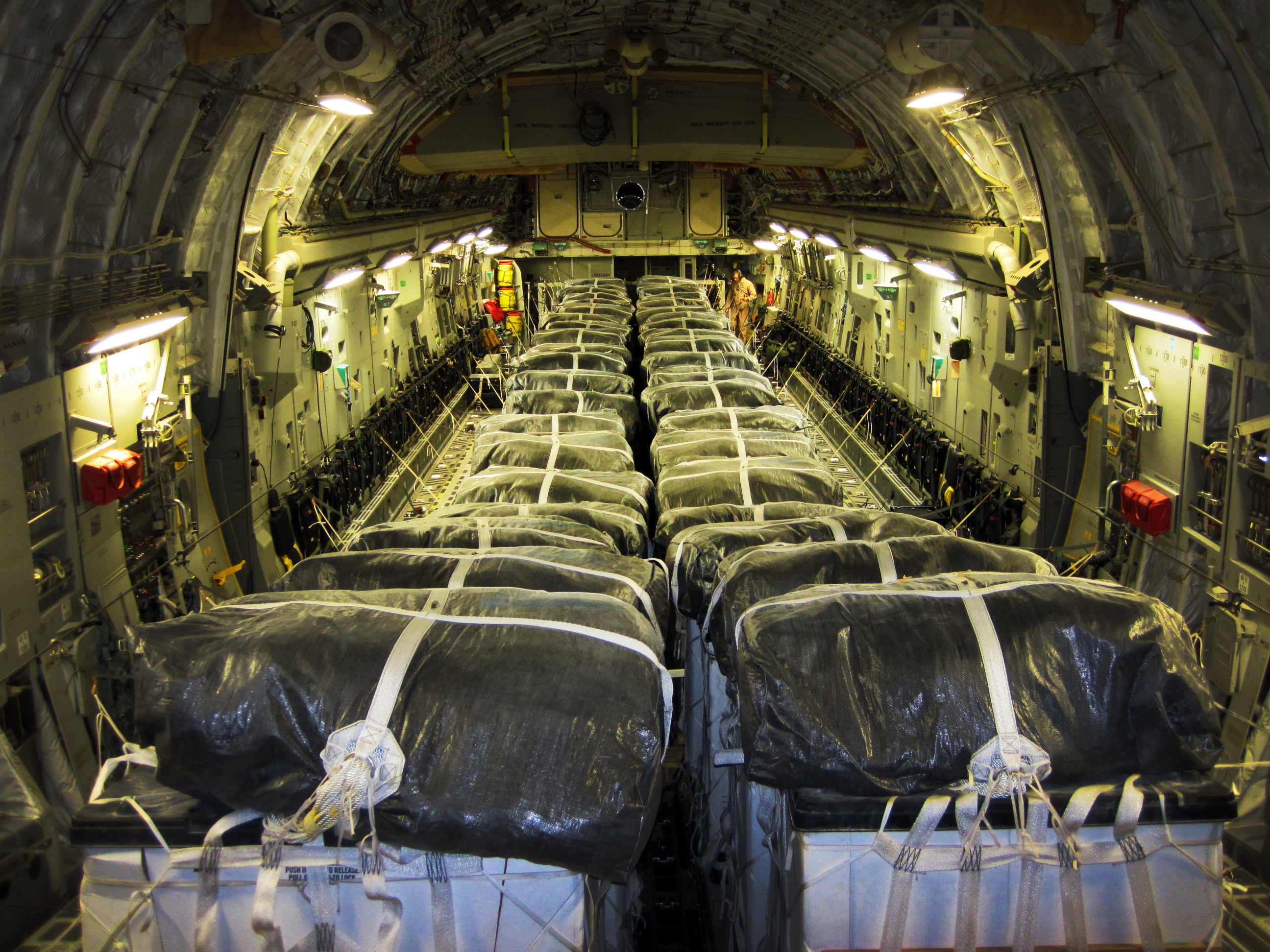 Pallets of bottled water are loaded aboard a U.S. Air Force C-17 Globemaster III aircraft in preparation for a humanitarian airdrop over Iraq Aug. 8, 2014. Airmen with the 816th Expeditionary Airlift Squadron airdropped 40 bundles of water for displaced citizens in the vicinity of Sinjar, Iraq. The president authorized U.S. Central Command to conduct military operations in support of humanitarian aid deliveries and targeted airstrikes in Iraq to protect U.S. personnel and interests, in response to activities conducted by Islamic State in Iraq and the Levant (ISIL) terrorists. (U.S. Air Force photo by Staff Sgt. Vernon Young Jr./Released)